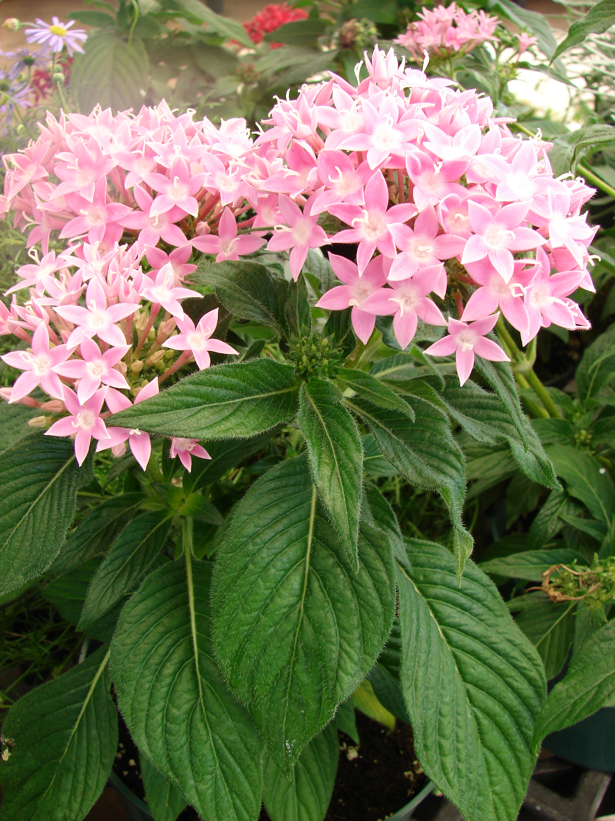 Pentas lanceolata (flowers and leaves). Location: Maui, Walmart Kahului